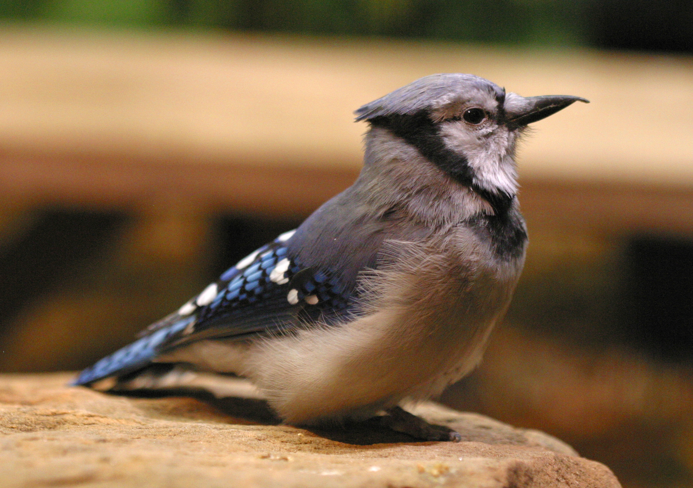 Blue Jay at the National Aviary in April 2007.